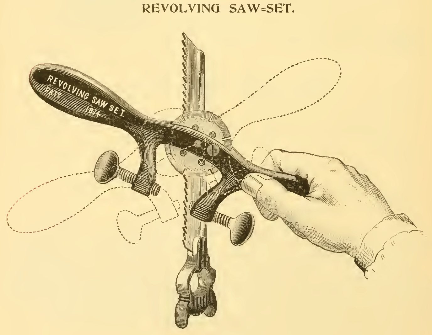 "Revolving Saw Set" Illustration (p. 66) from 1902 catalog.